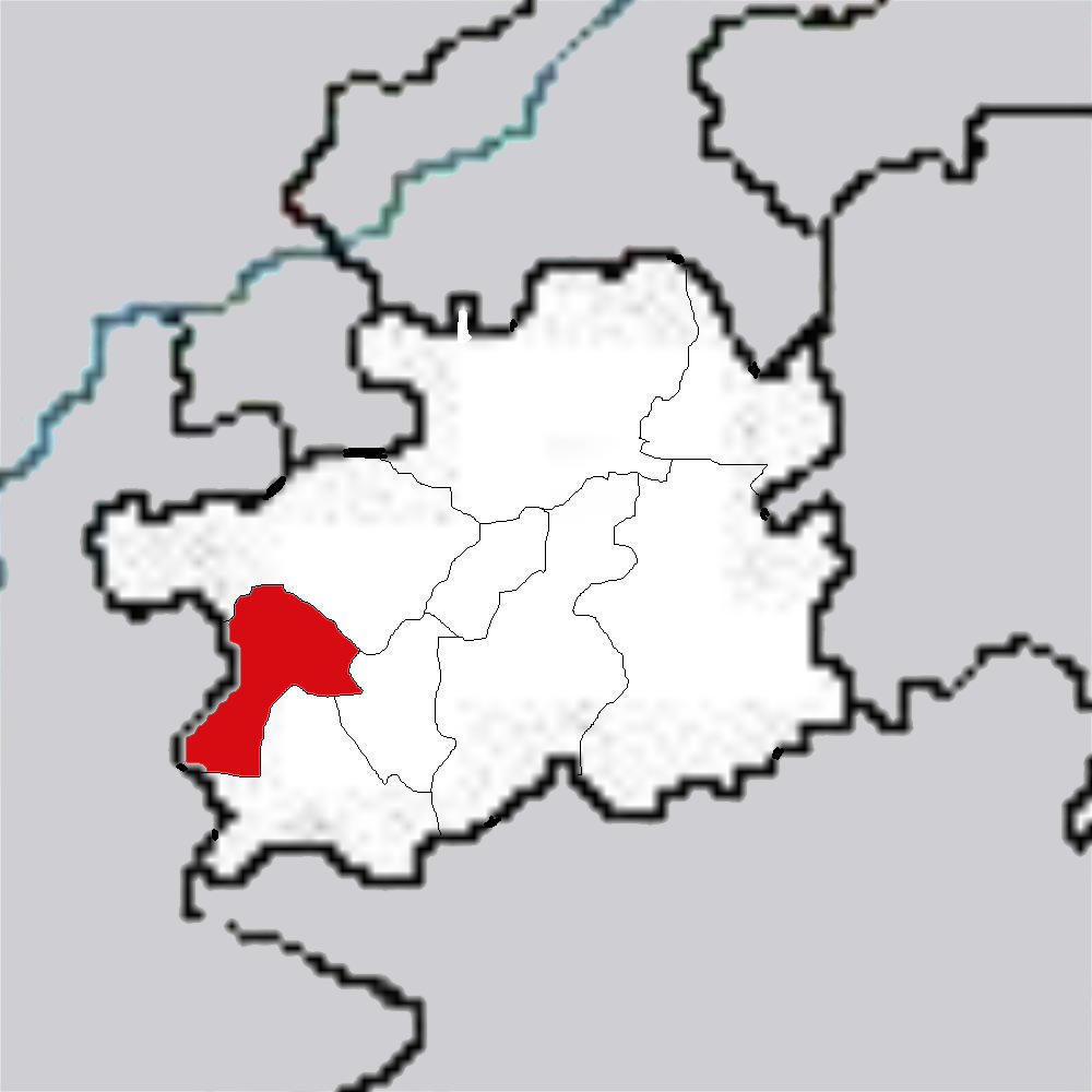 Maps of Guizhou Province of China